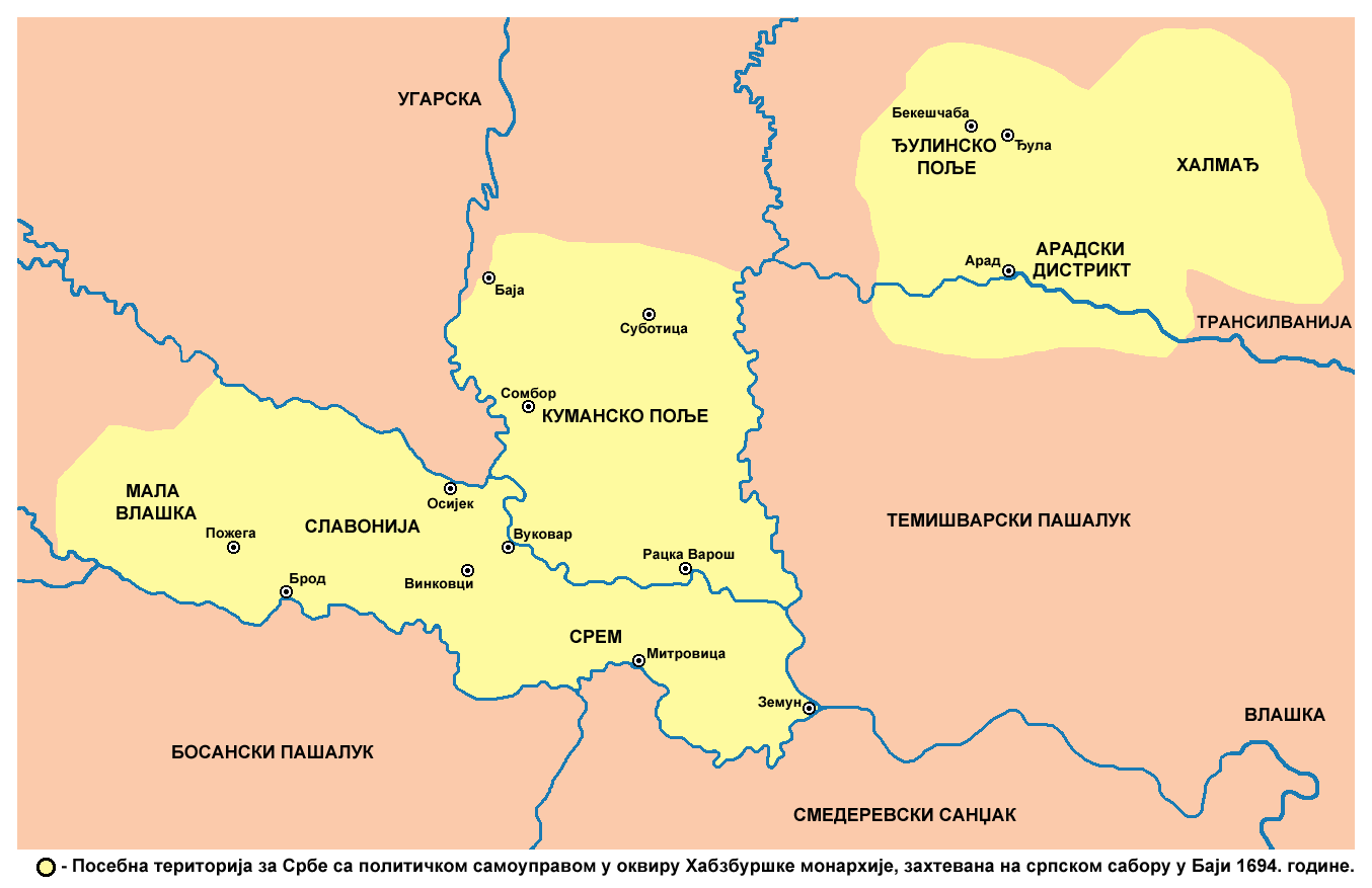 Separate territory for the Serbs with political autonomy within Habsburg Monarchy, demanded at the Serb assembly in Baja in 1694.